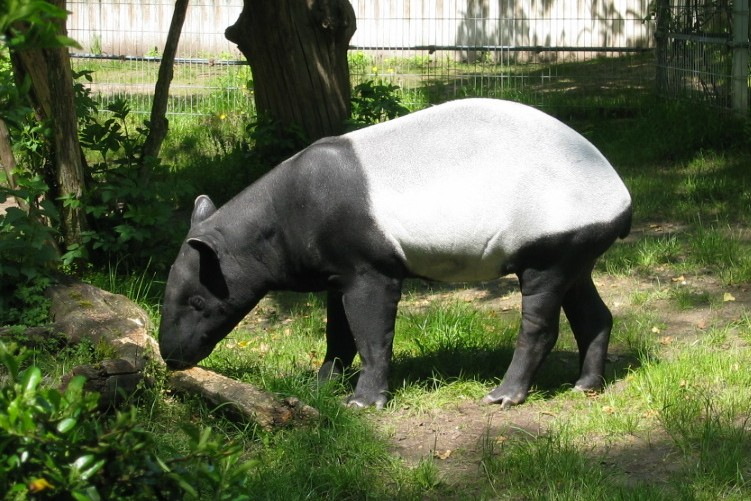 Selfmade photograph of Tapirus indicus in Nürnberg Zoo